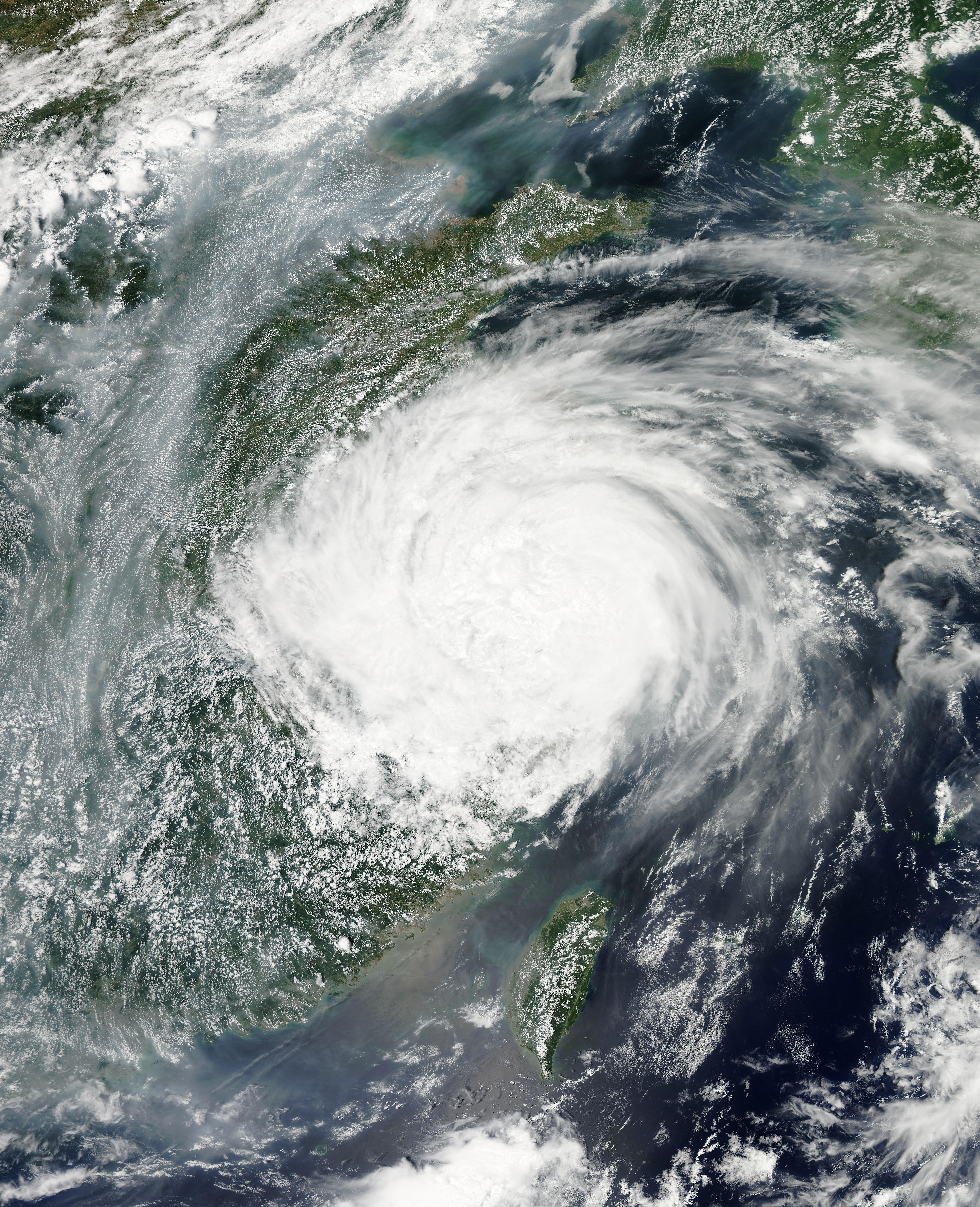 Haikui on August 8 2012